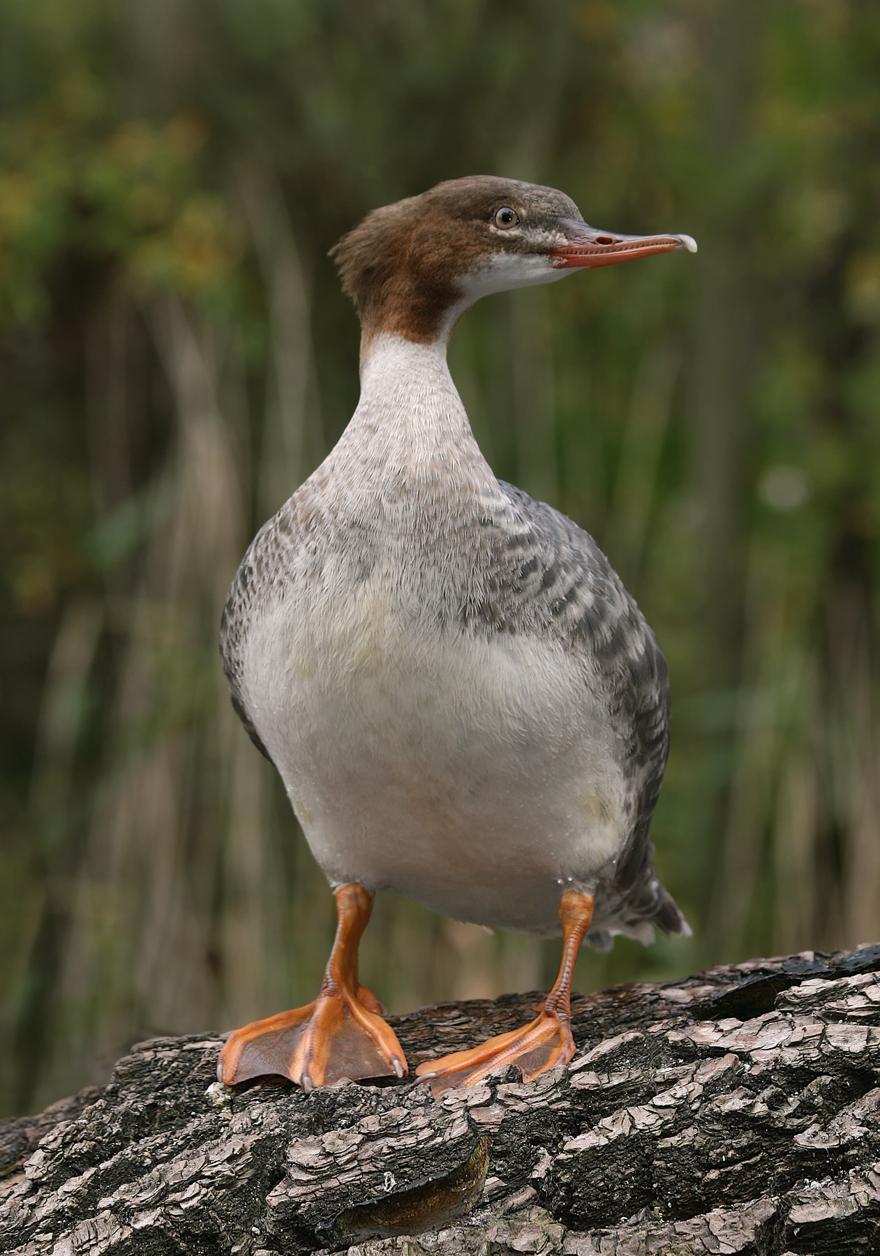 Description: The Common Merganser, (Goosander in Europe), Mergus merganser, is a large sized duck, which is distributed over Europe, North Asia and North America. It is most common on lakes and rivers. Its nests can be found in treeholes.